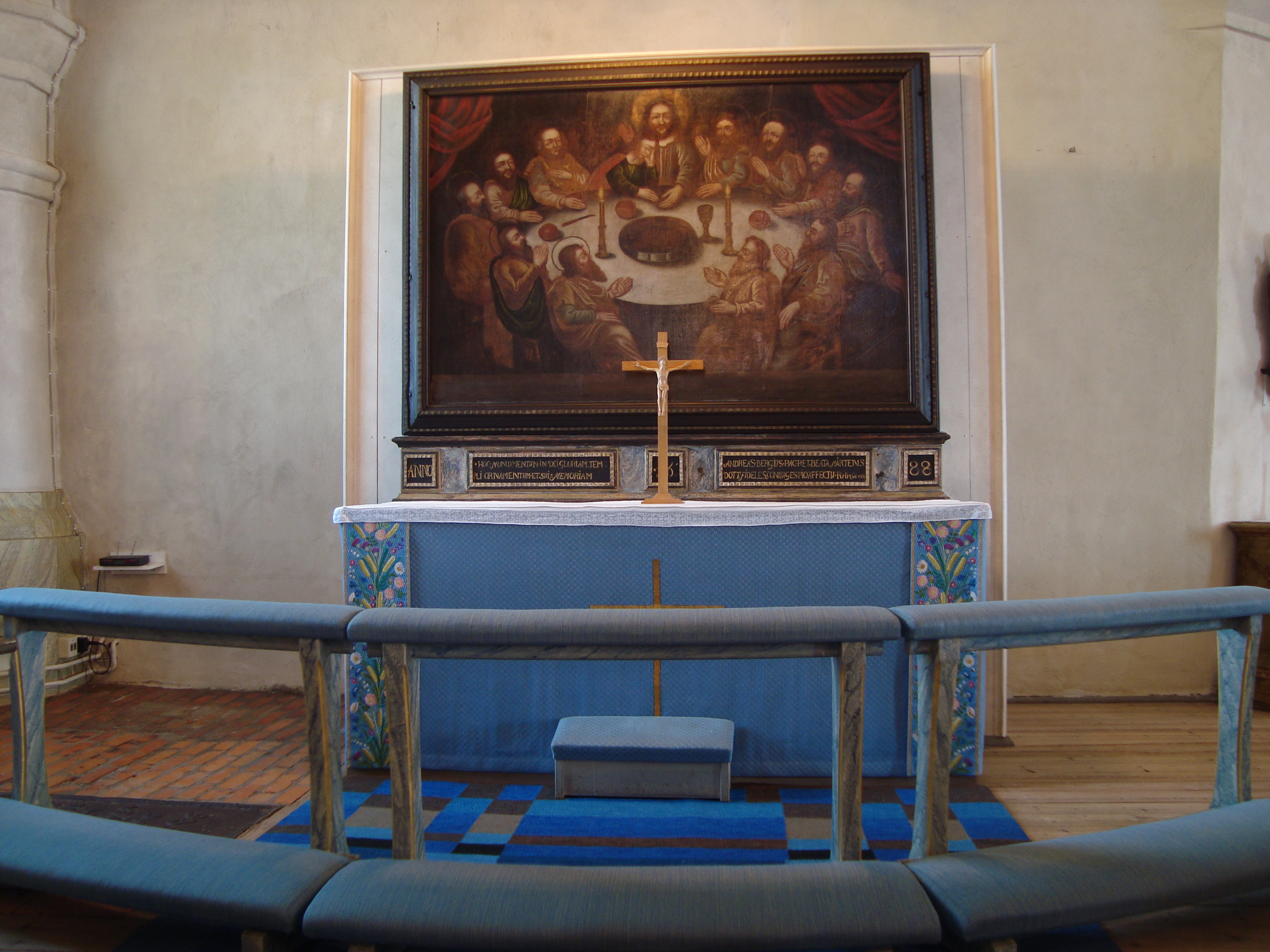 Norrbärke church, Smedjebacken, Sweden